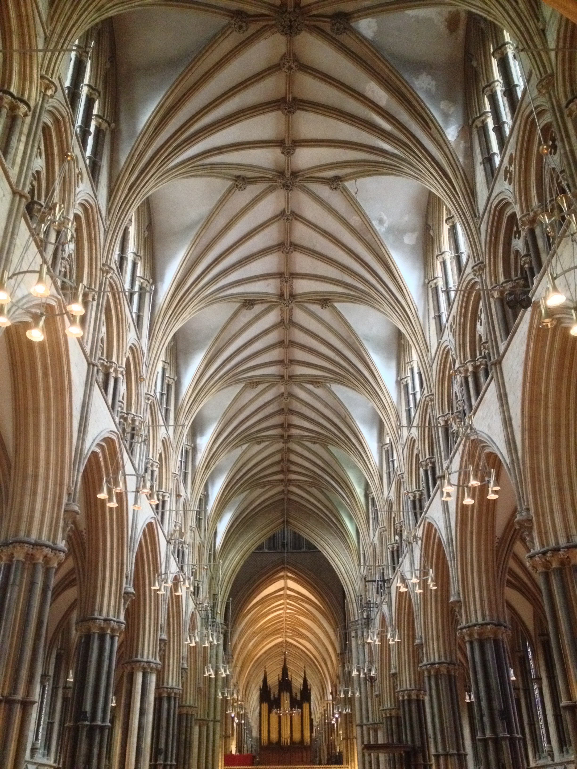 The Nave of Lincoln Cathedral in England